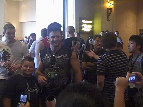 Phil "NYBA" Baroni with fans - UFC 100 Fan Expo - Mandalay Bay Casino, Las Vegas